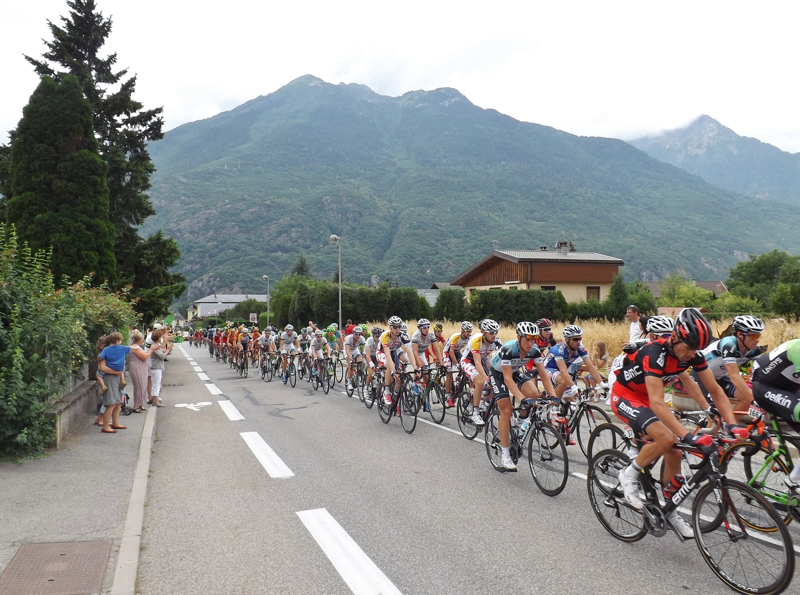 Sight of the Tour de France 2013 riders passing at La Chambre just before the col de la Madeleine pass in Savoie (stage 19).